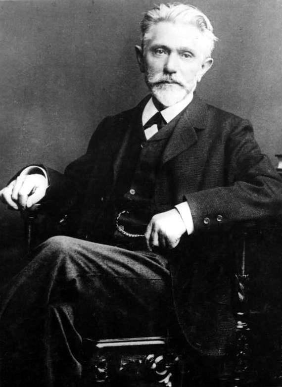 Workers' leader August Bebel